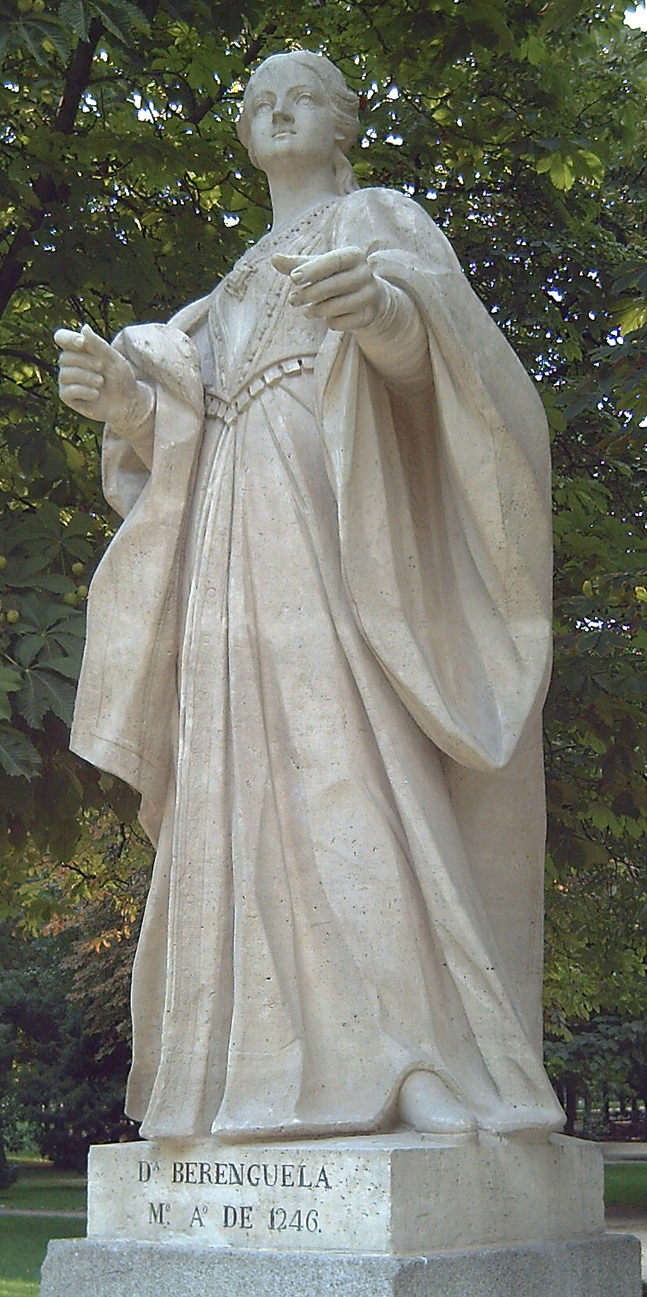 Depicted person: Berenguela of Castile